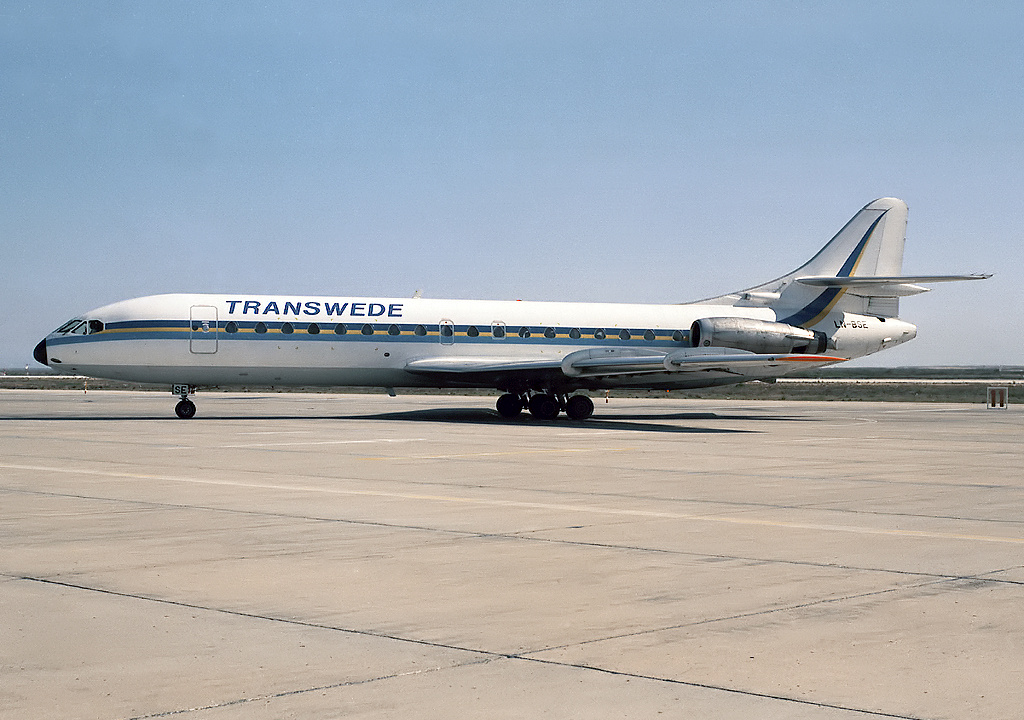 Transwede Sud SE-210 Caravelle 10B3 Super B LN-BSE at Faro Airport